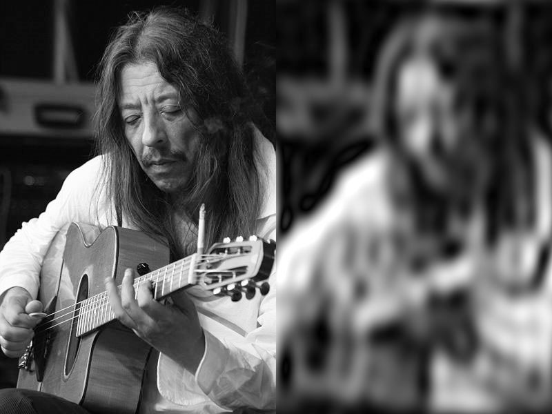 Lowpass filter on a picture. The picture was transformed using FFT and only low frequencies were kept, then the picture was converted back to the proper space using IFFT. The result is similar to the blur filters though these are averaging low and high frequencies, while the lowpass discards high frequencies